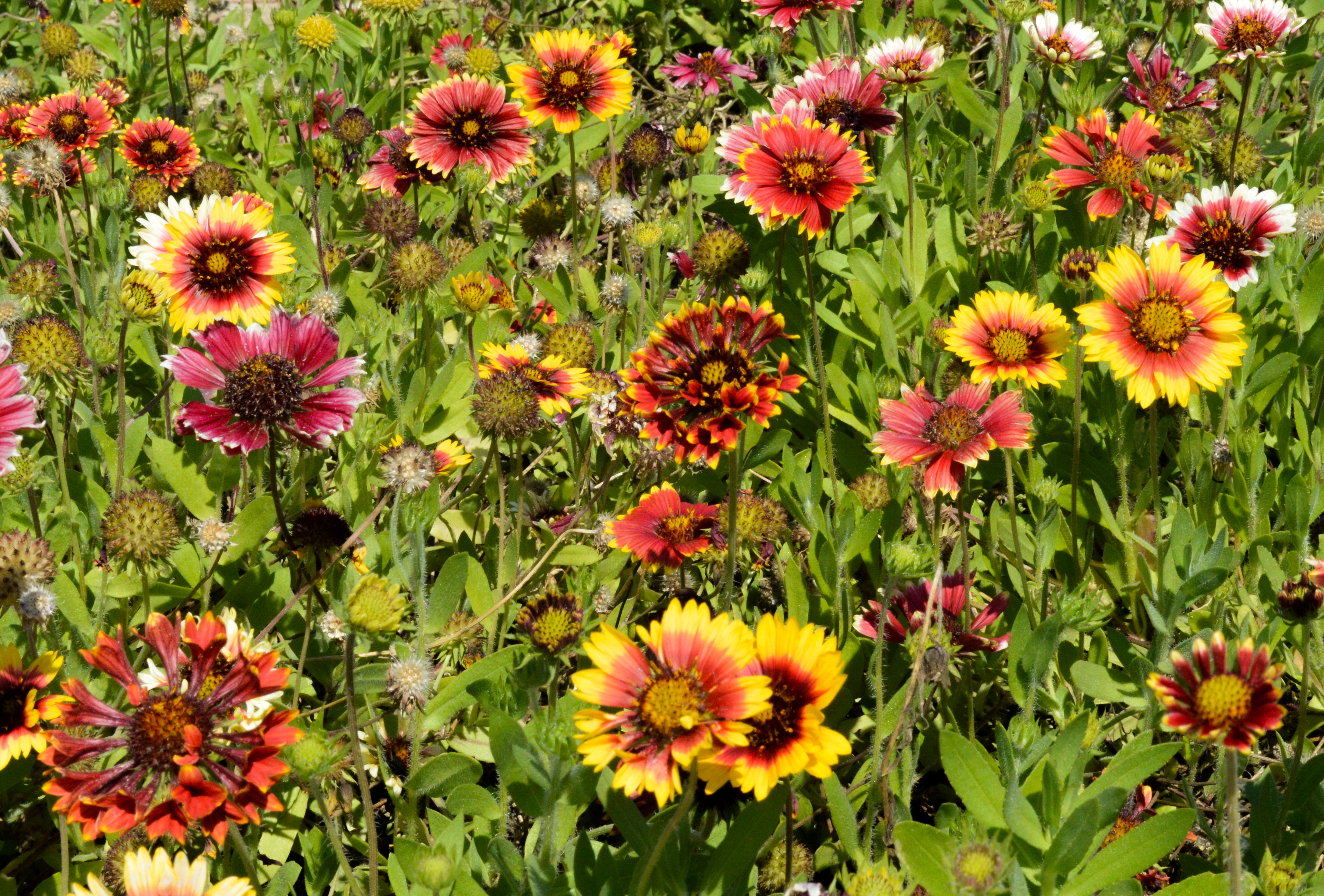 Flowers at Al Khubar, Ash Sharqiyah.